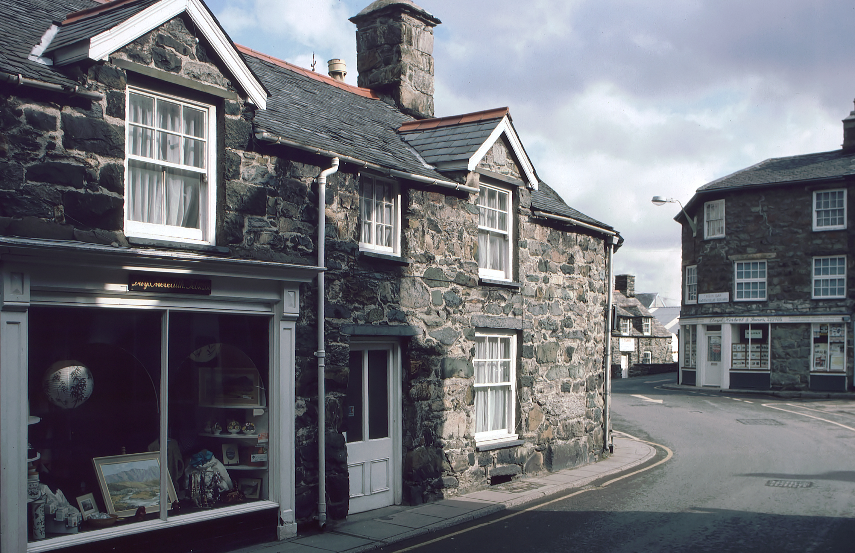 The village of Dolgellau on the junction or the rivers Mawddach and Wnion; Gwynedd, Wales, GB.